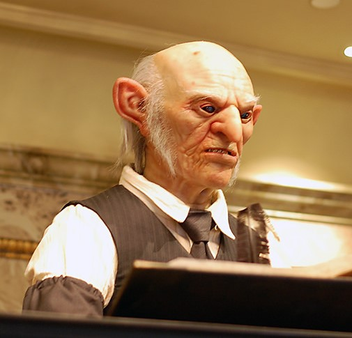 Goblin at Gringotts Money Exchange Diagon Alley 0721.2